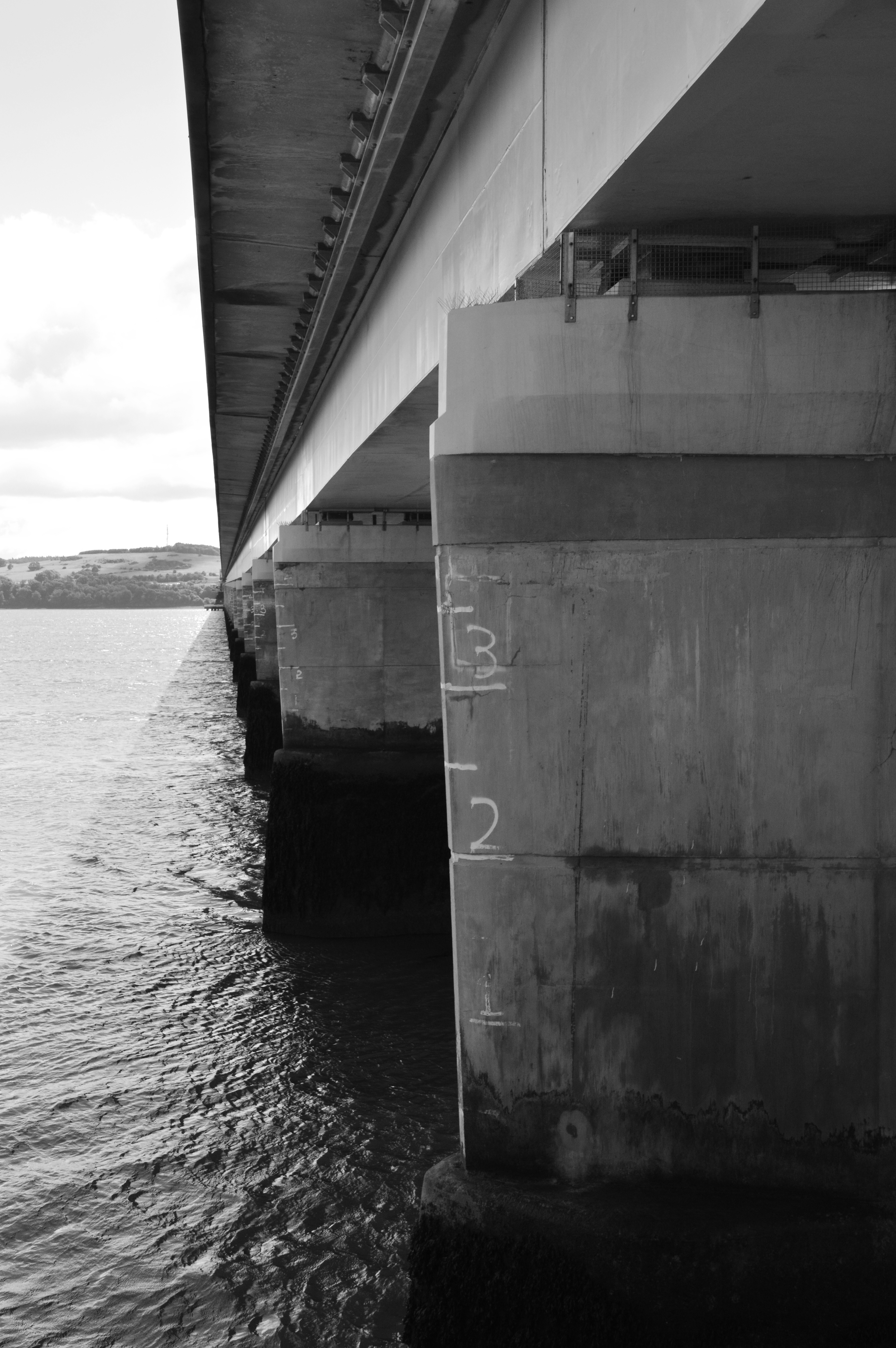 Tay Road Bridge as seen from City Quay, Dundee